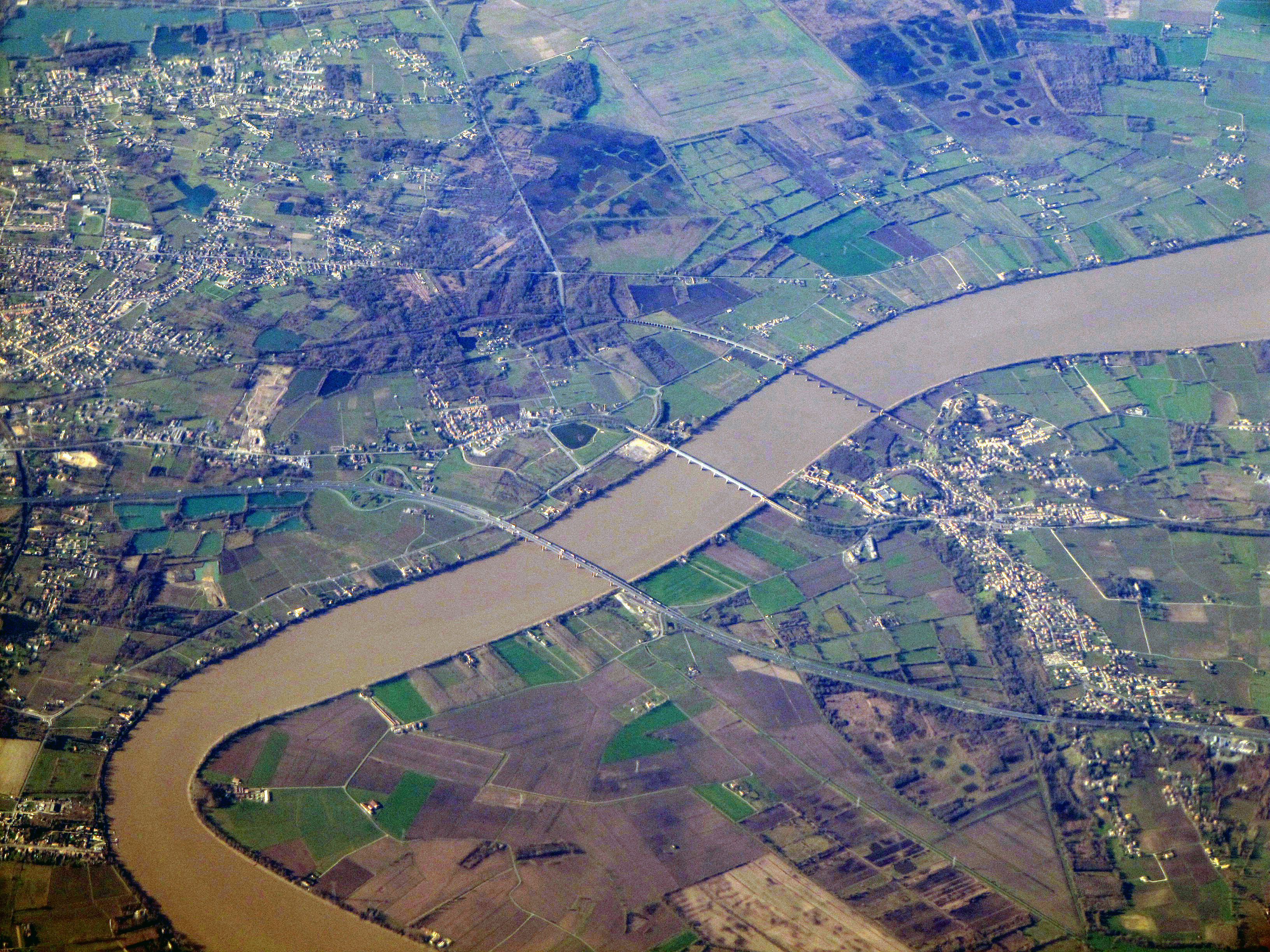 Saint-Vincent-de-Paul (Gironde)